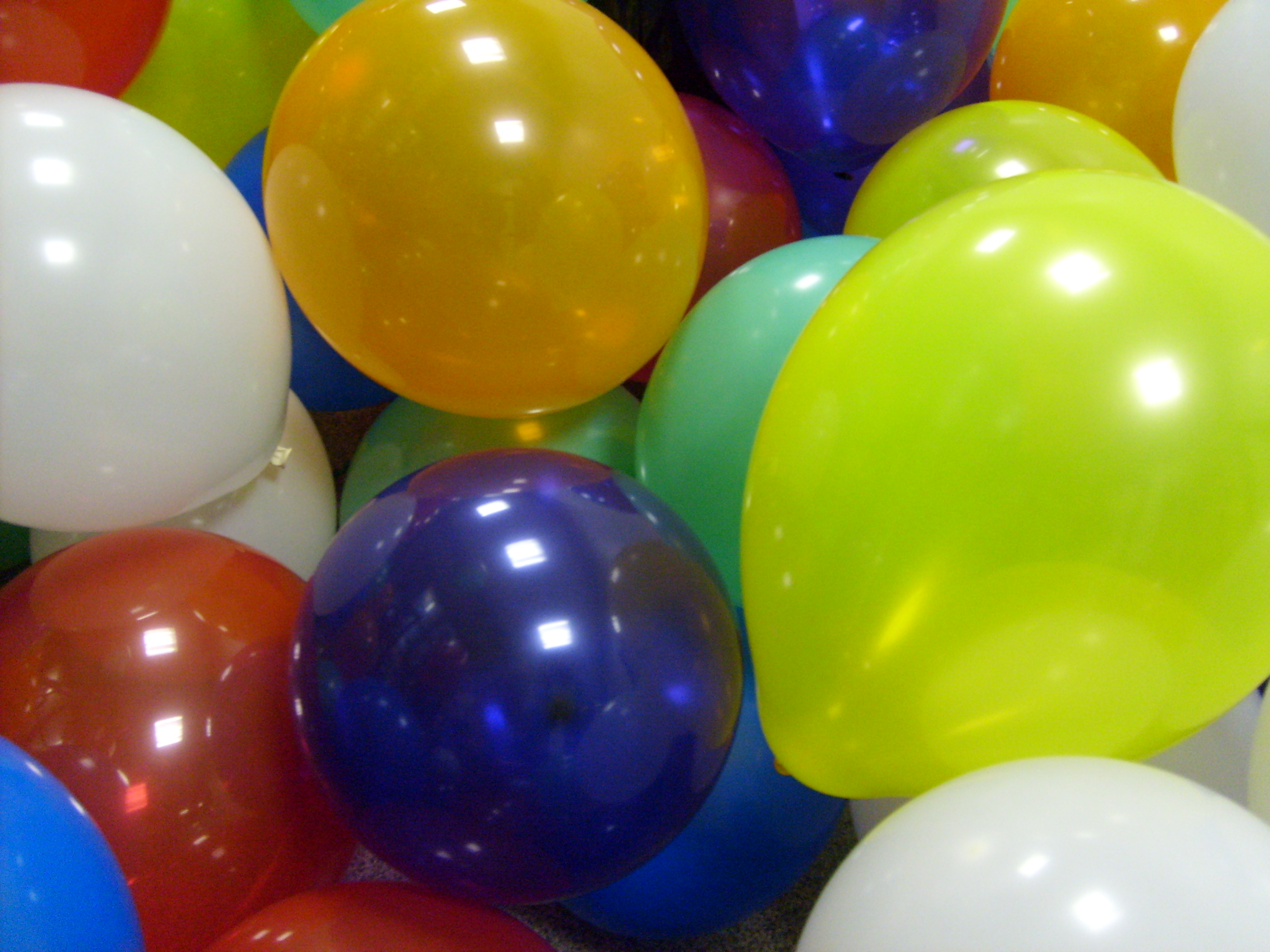 A pile of inflatable balloons.